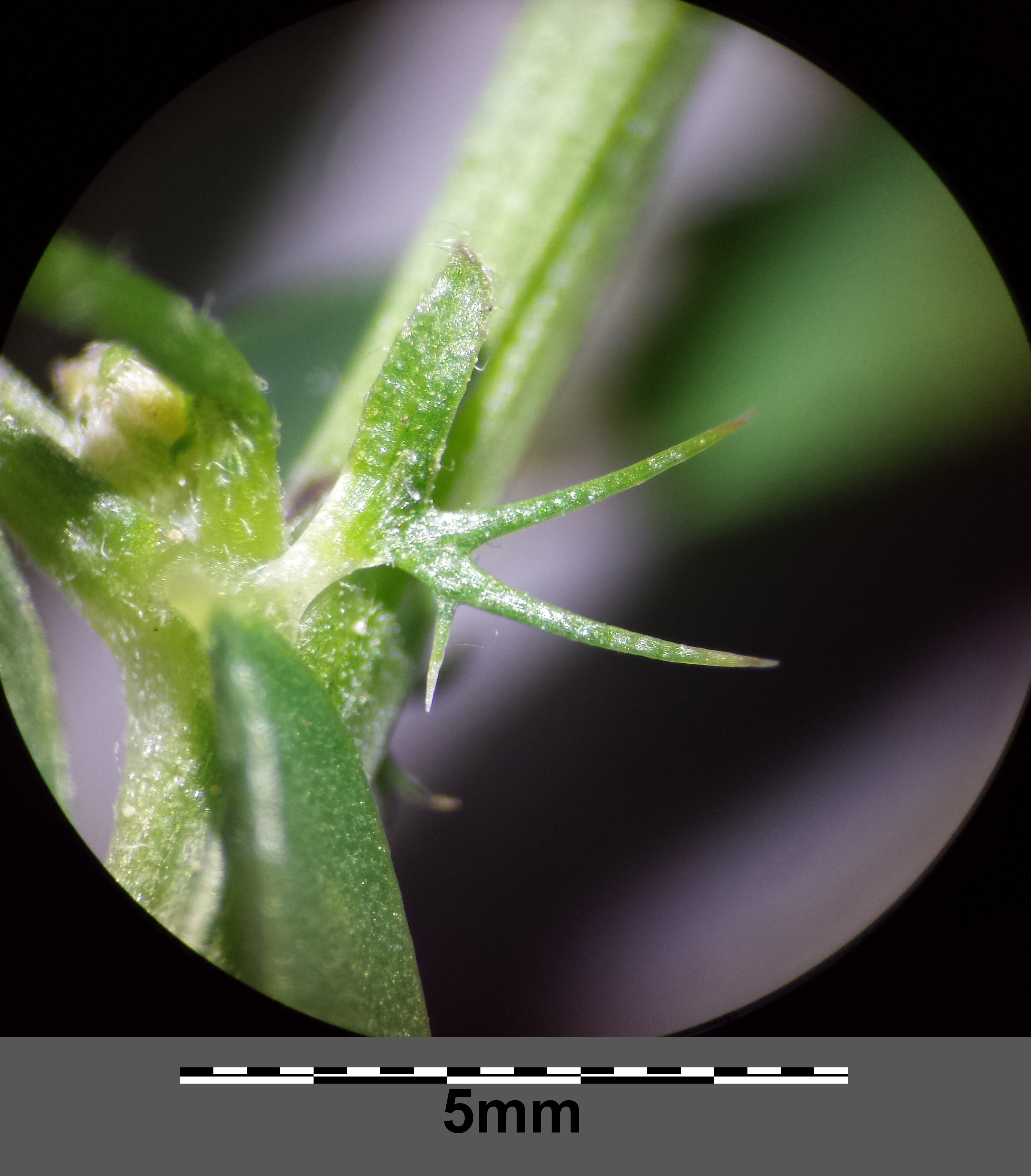 Stem with stipule Taxonym: Vicia hirsuta ss Fischer et al. EfÖLS 2008 ISBN 978-3-85474-187-9 Location: Neue Donau, district Korneuburg, Lower Austria - ca. 160 m a.s.l. Habitat: dry slope